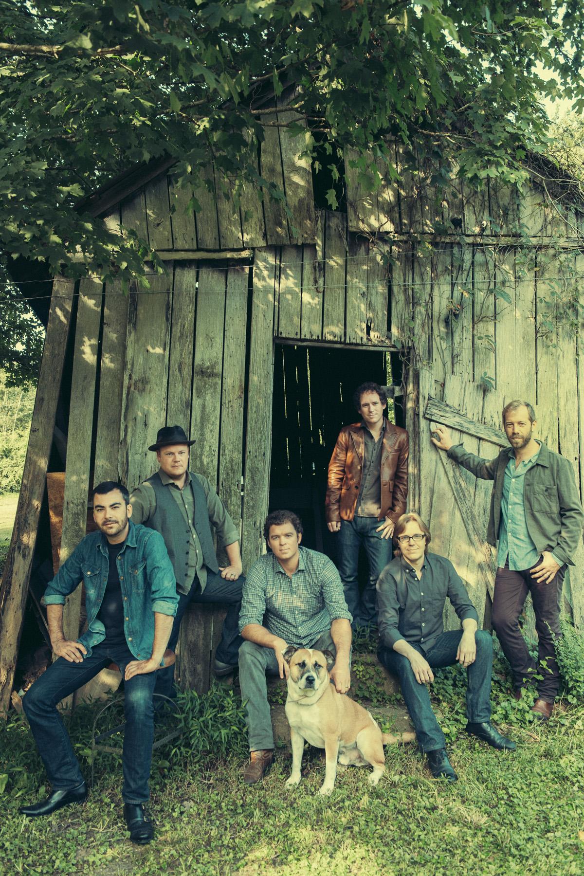 Steep Canyon Rangers by David McClister